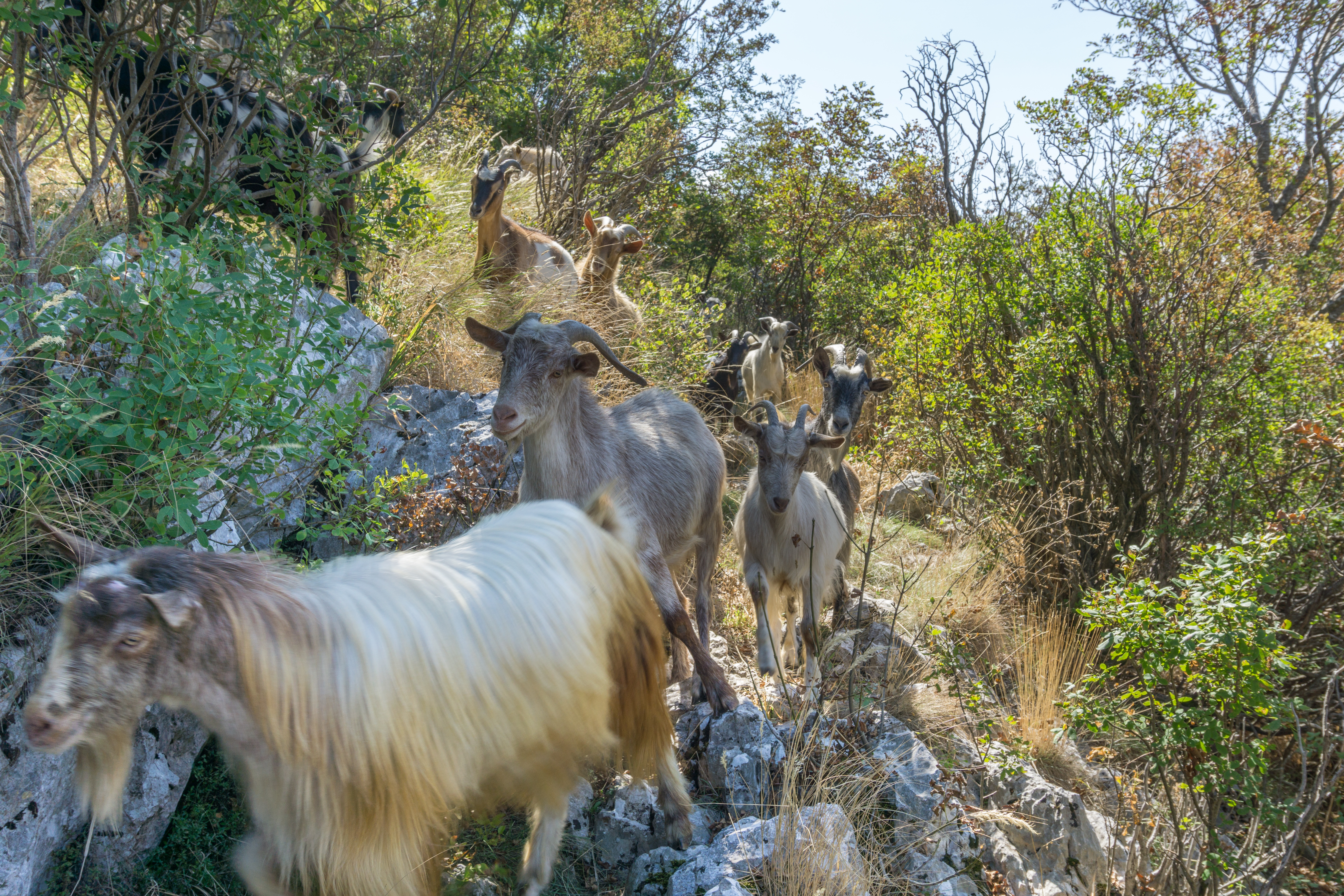 Goats along the PPT. Picture taken during hiking the Primorska Planinarska Transverzala (PPT; Mountaineering Coastal Transversal) in Montenegro